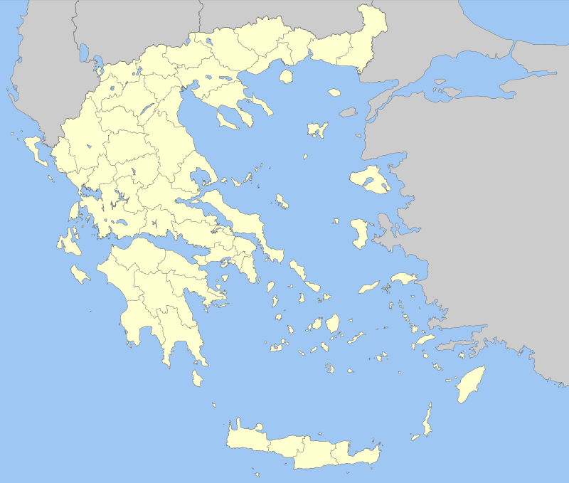 Regional Units of Greece